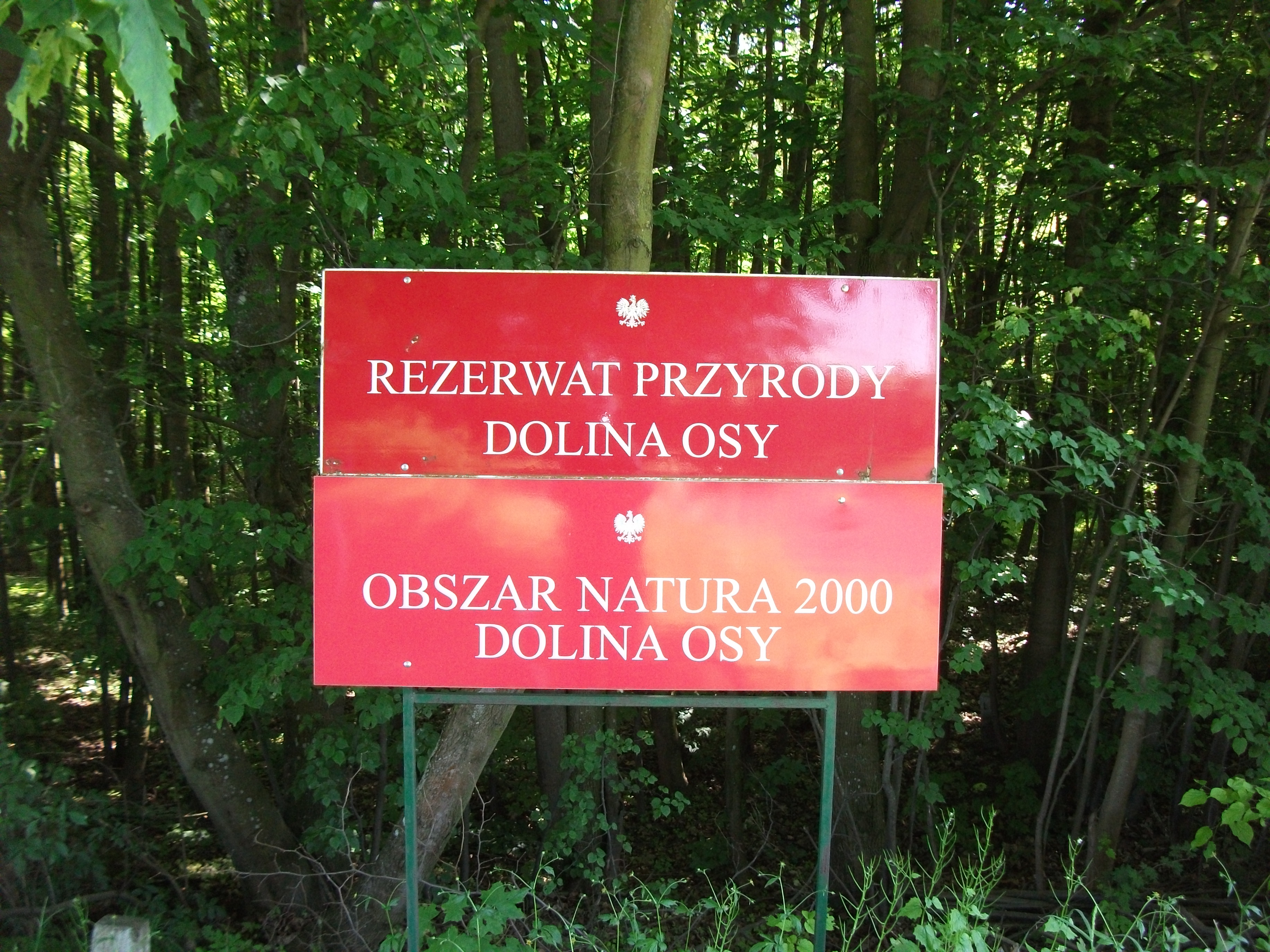 Osa Valley Nature Reserve